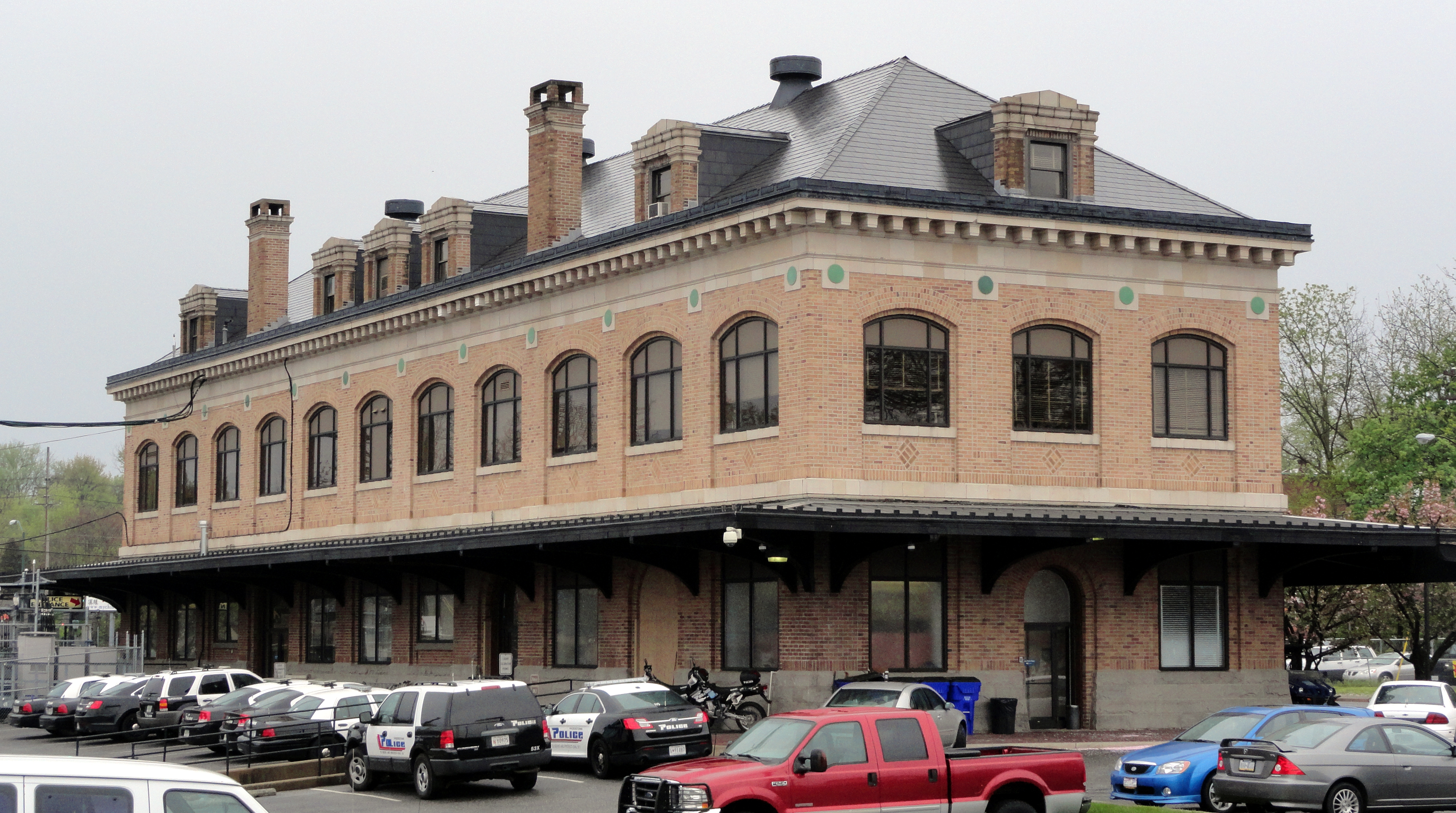 View of former Western Maryland Railway station in Hagerstown, Maryland. View looking southwest. The station faces North Burhans Blvd. The extant CSX tracks are to the left, outside of the photo. The station was completed in 1913 and operated as a passenger station until 1957. The building is now used as the headquarters of the Hagerstown Police Department.